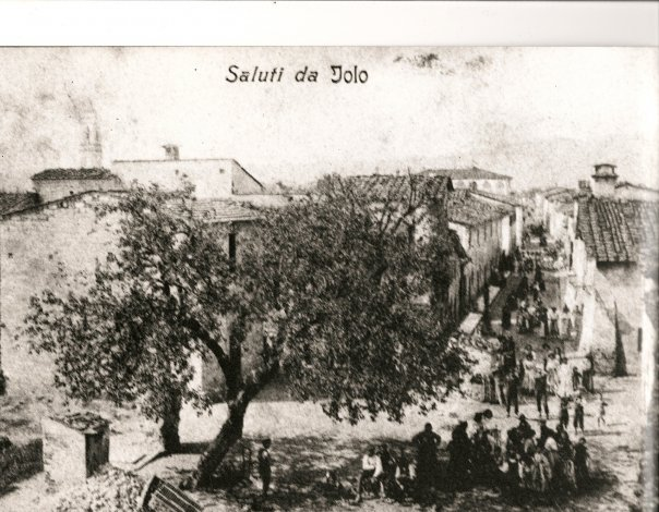 Catolina dell'inizio del XX Secolo. Via Bianchini, Jolo. "Garduna".